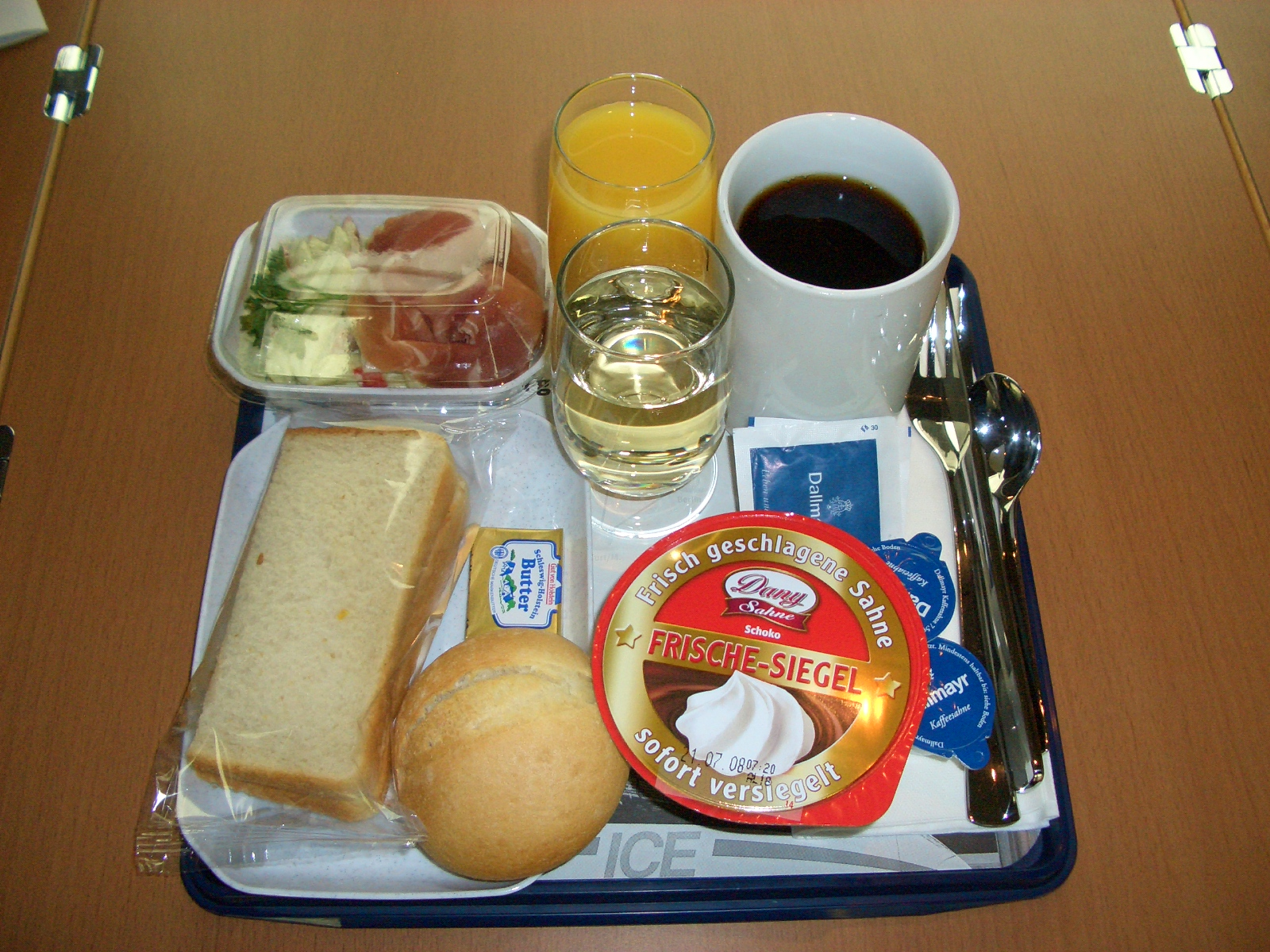 1st class supper on an ICE Sprinter high-speed train. A white (or red) wine is only served one some trains on Friday.